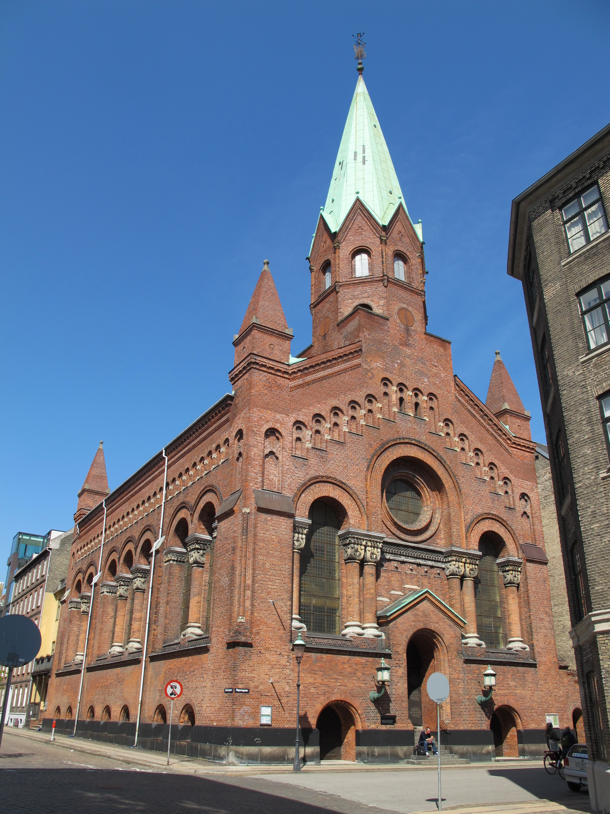 Jerusalemskirken in Copenhagen (corner of Ringensgade and Stokhusgade)